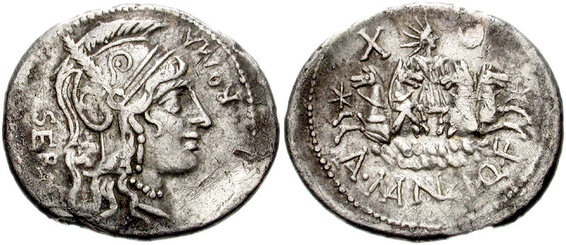 A. Manlius Q.f. Sergianus 118-107 BC. AR Denarius (22mm, 3.75 g). Helmeted head of Roma right / Sol in facing quadriga rising from the waves of the sea; star on either side, X and crescent above. Crawford 309/1; Sydenham 543; Manlia 1. VF, toned, some scrapes. Rare. From the Karl Sifferman Collection.